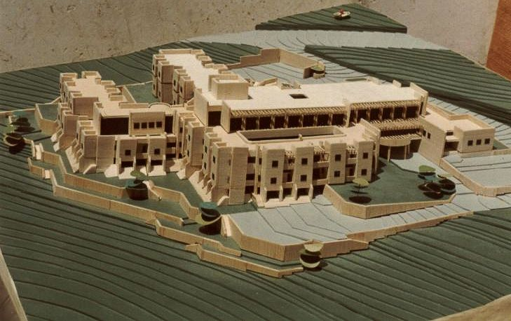 A balsa wood model of Maternity Convalescent Home, which was built at Kiryat Ye'arim, Israel.